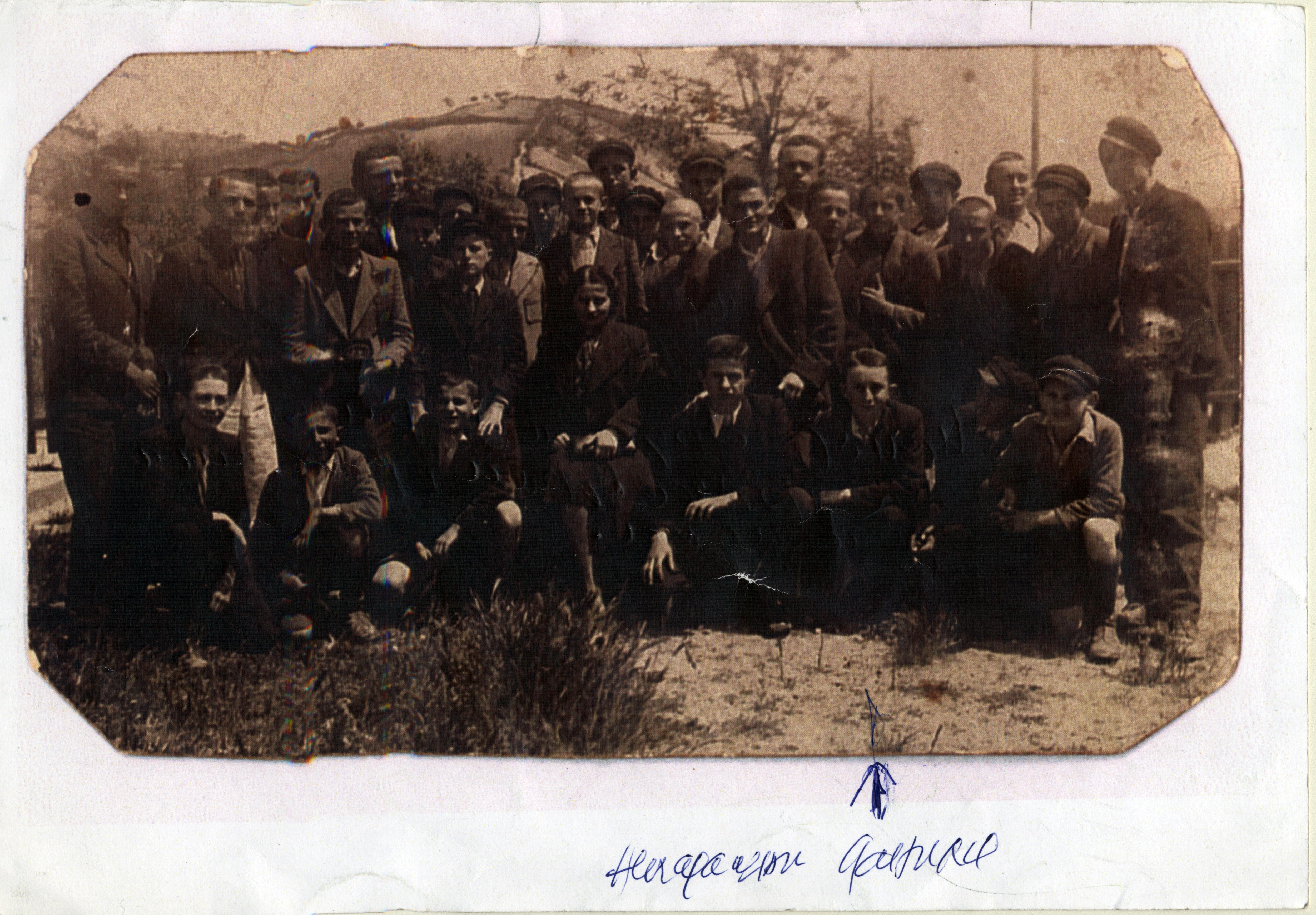 Danilo Nikolić, Serbian writer, with his high school classmates in the Gymnasium of Peć, 1940. The inscription says "Former Danilo". Српски (ћирилица): Данило Николић са школским друговима и разредним старешином IV-3 разреда Гимназије у Пећи, 1940. Натпис: Некадашњи Данило.